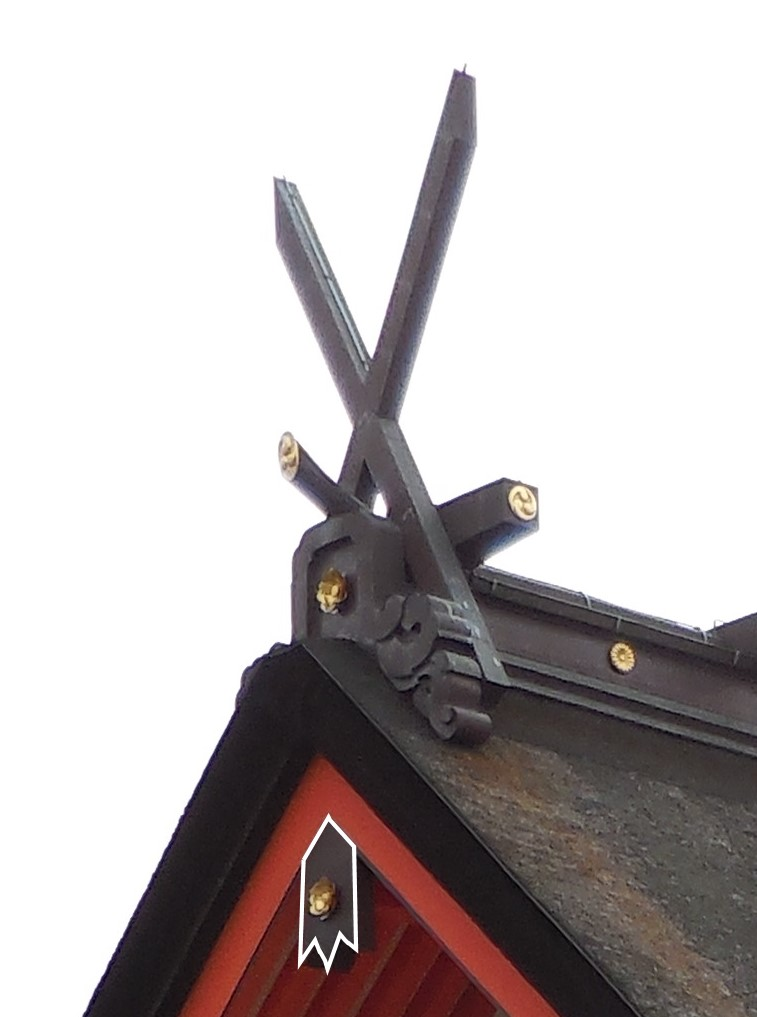 End ot the roof of a Sumiyoshi shrine